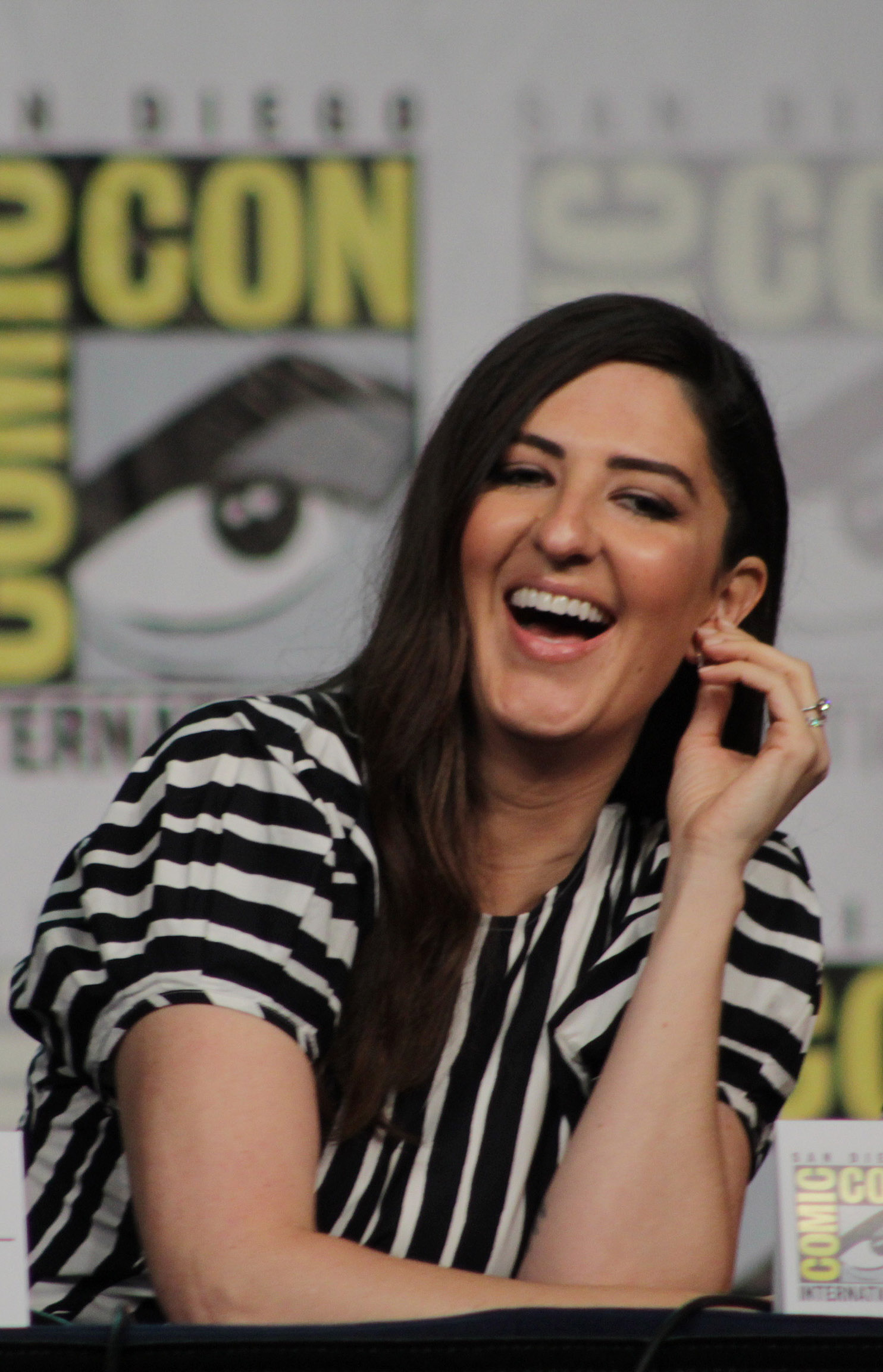 Cast and crew of NBC's 'The Good Place' discuss the show in the Indigo Ballroom at the San Diego Hilton Bayfront Hotel during San Diego Comic Con on July 20, 2019. Taken by Dominique Redfearn.